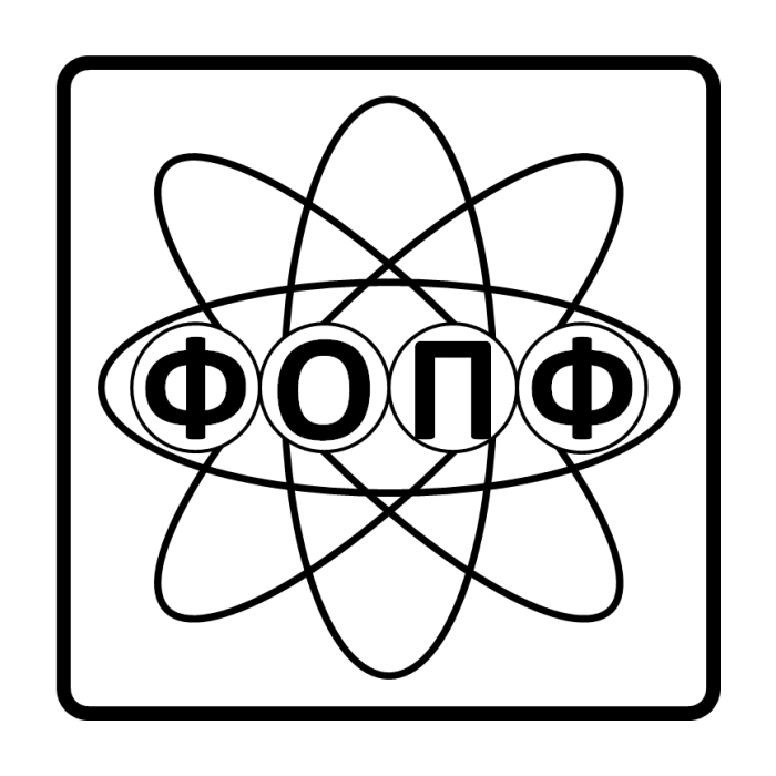 An old logotype of DGAP department of Moscow Institute of Physics and Technology. (Redrawn.)